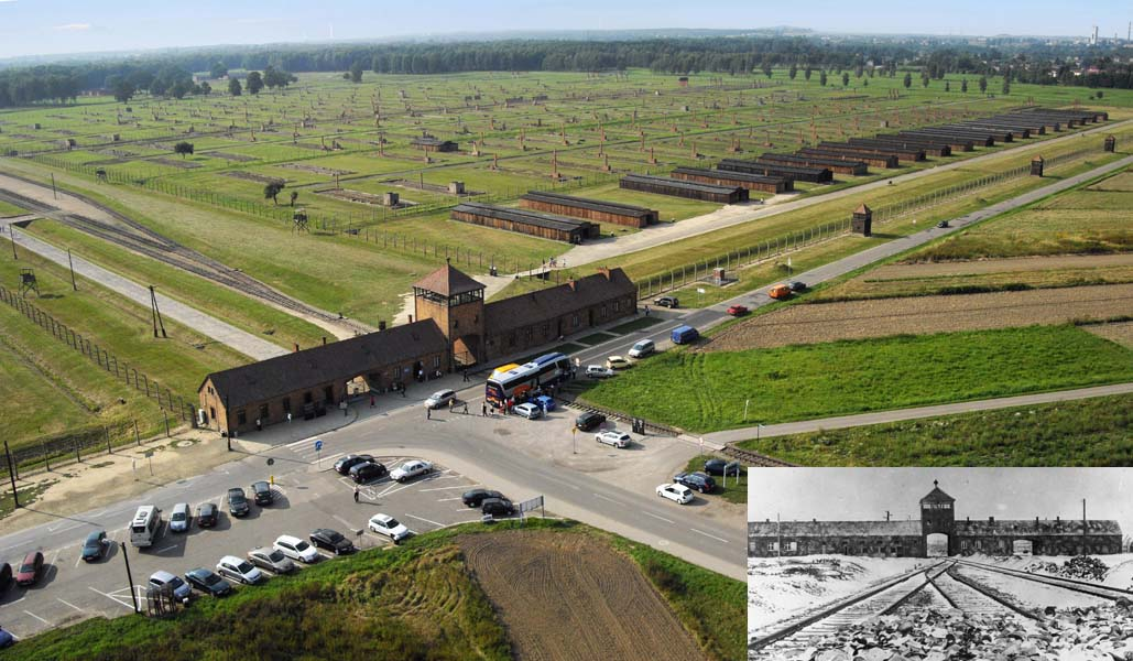 German death camp Auschwitz Birkenau in Poland.